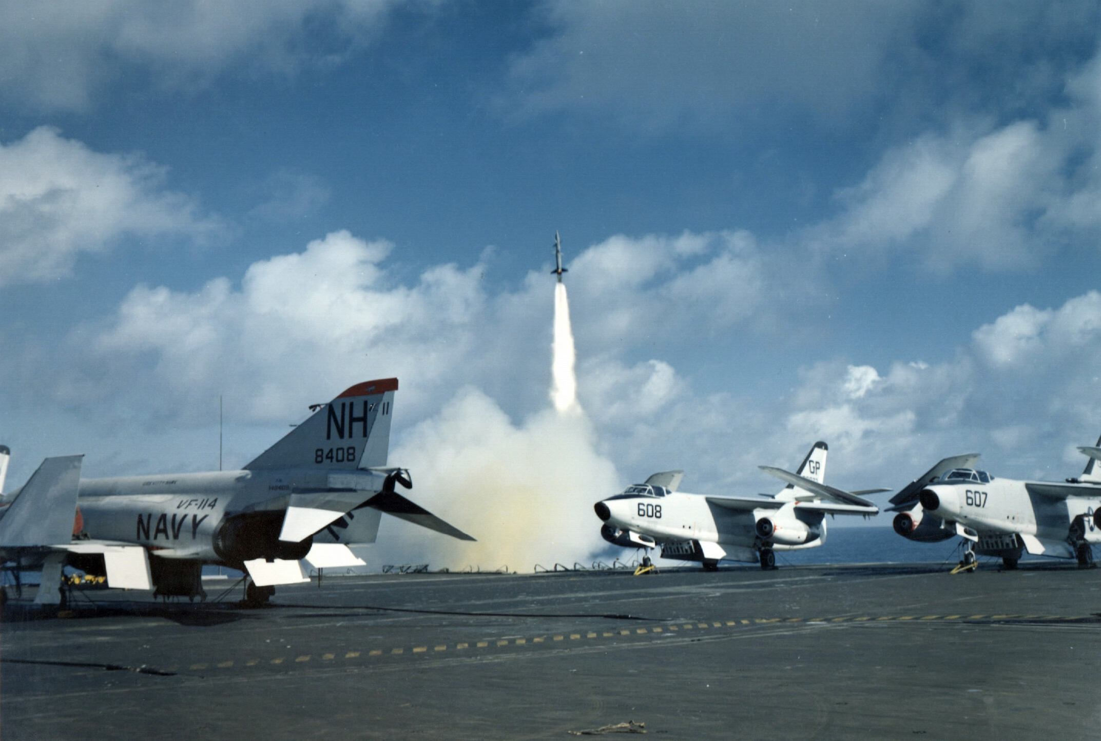 A RIM-2 Terrier surface-to-air missile is fired by the U.S. Navy aircraft carrier USS Kitty Hawk (CVA-63) in the Western Pacific during her first operational deployment between 13 September 1962 and 2 April 1963. Two Douglas A3D-2s of Heavy Attack Squadron VAH-13 Bats and a McDonnell F4H-1 Phantom II (BuNo 148408) from Fighter Squadron VF-114 Aardvarks are visible on deck.